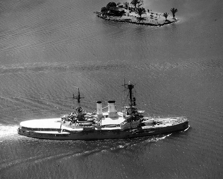 Schlesien (German Battleship, 1908) Photographed while transiting the Panama Canal, 8 March 1938.